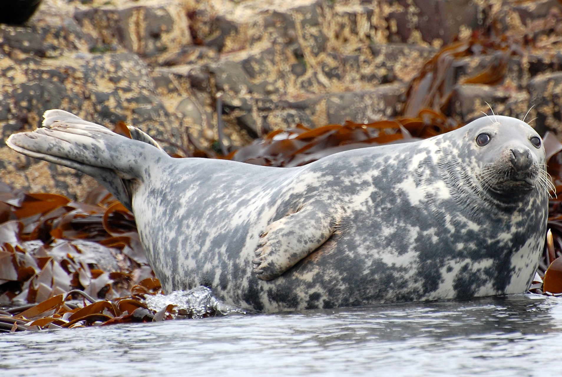 Grey Seal On Farne Islands